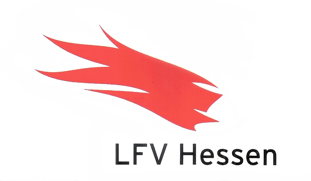 Logo of the Landesfeuerwehrverband Hessen e.V.